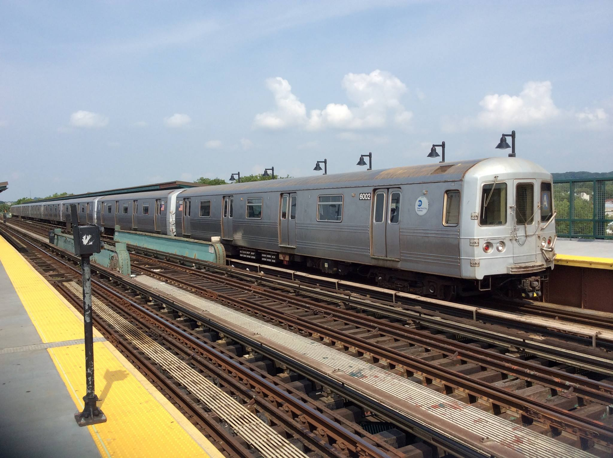 Northbound R46 A train at 88 St